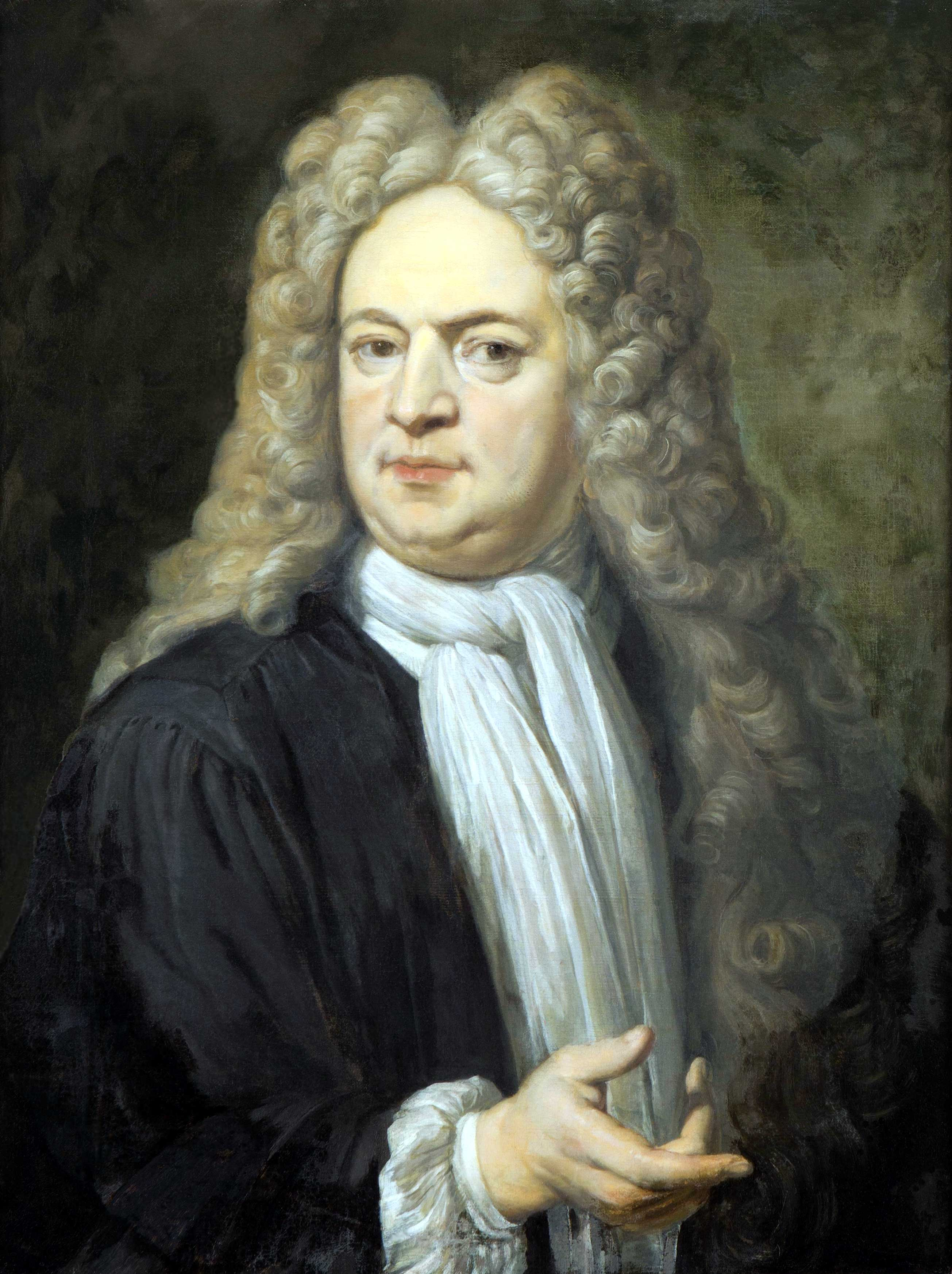 Johannes Jacobus Rau (1668-1719) German physician